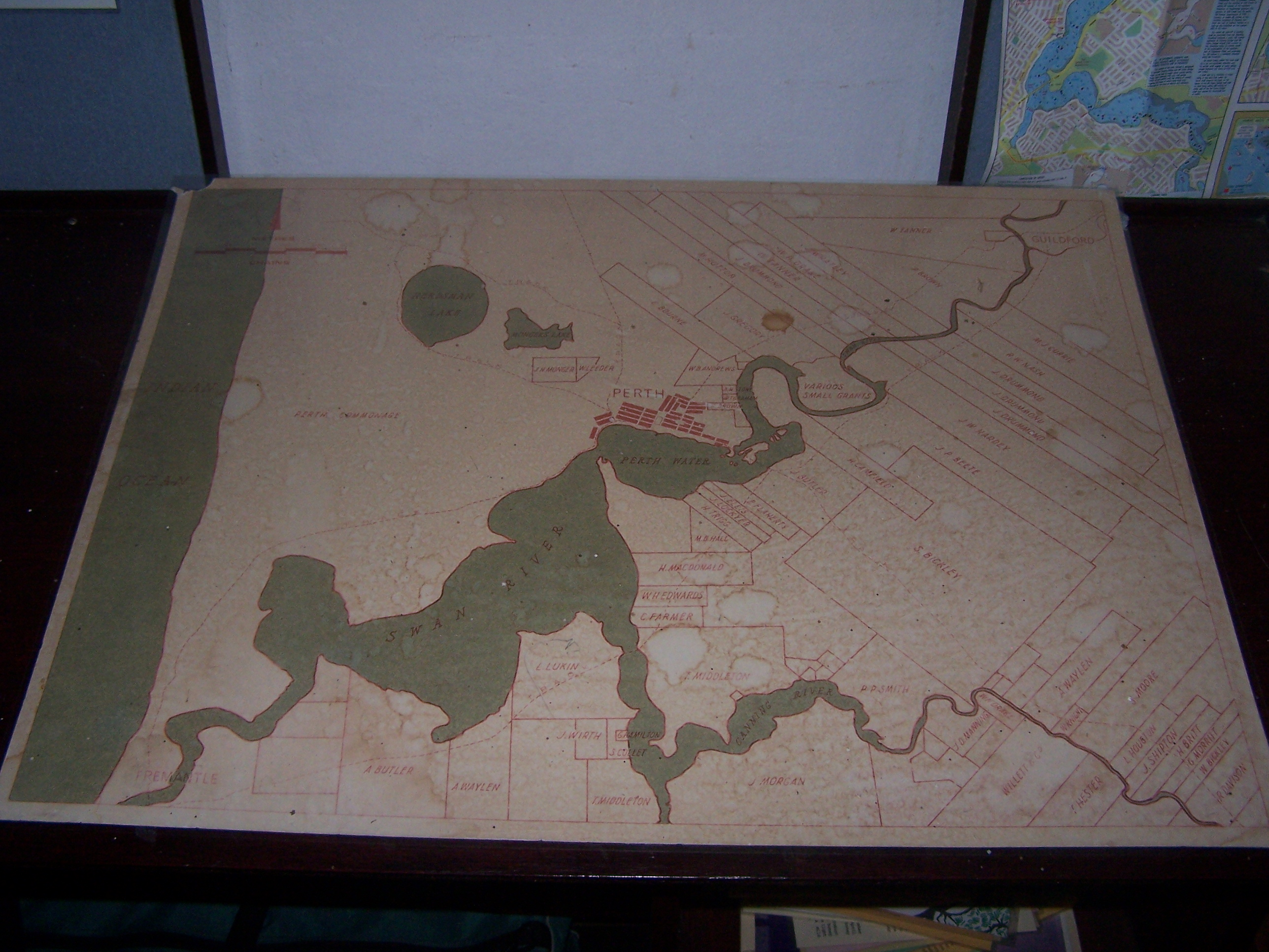 Perth Swan river colony land allocation circa 1830's, as survey by J.S. Roe